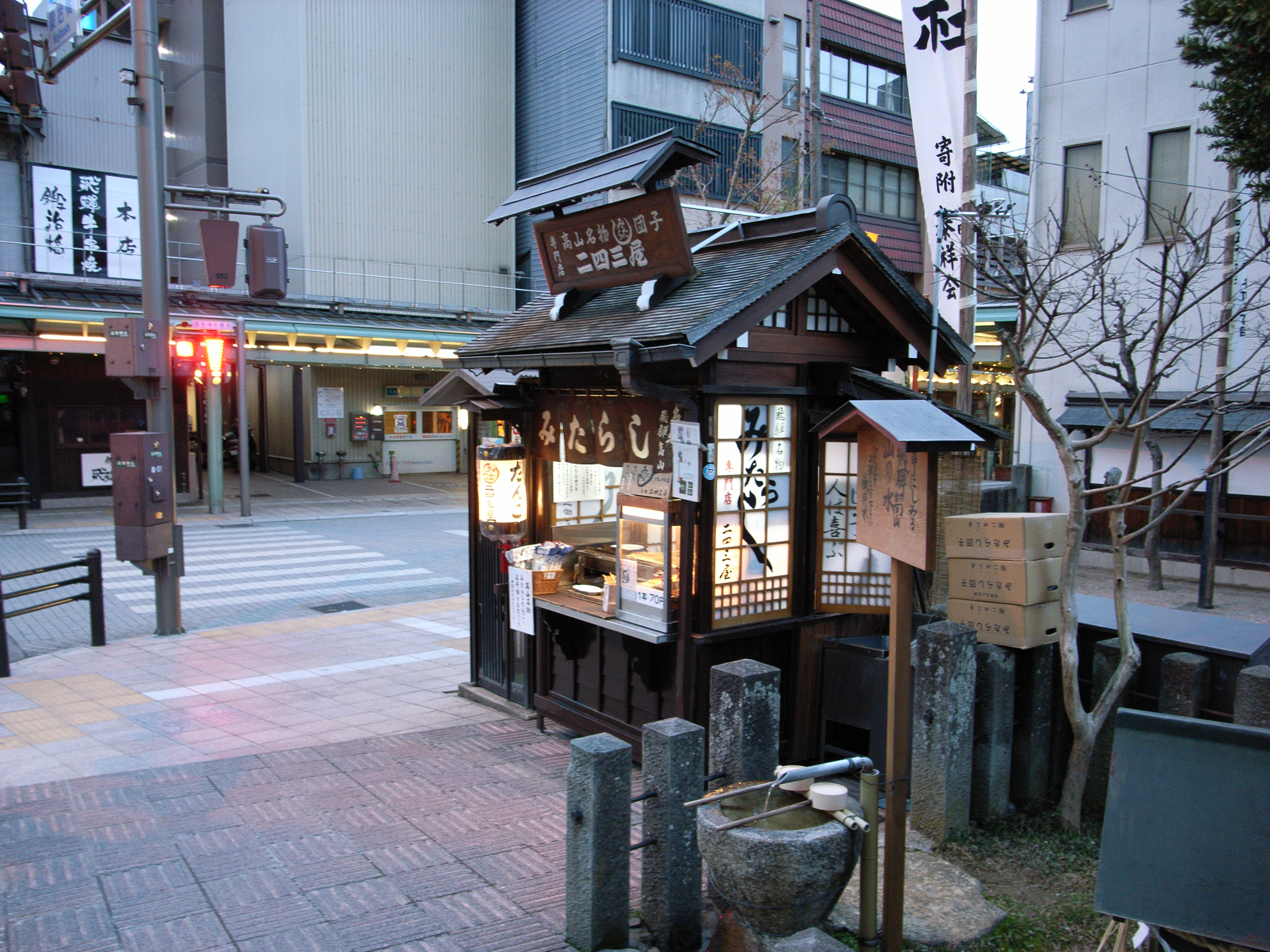 Old Private Houses